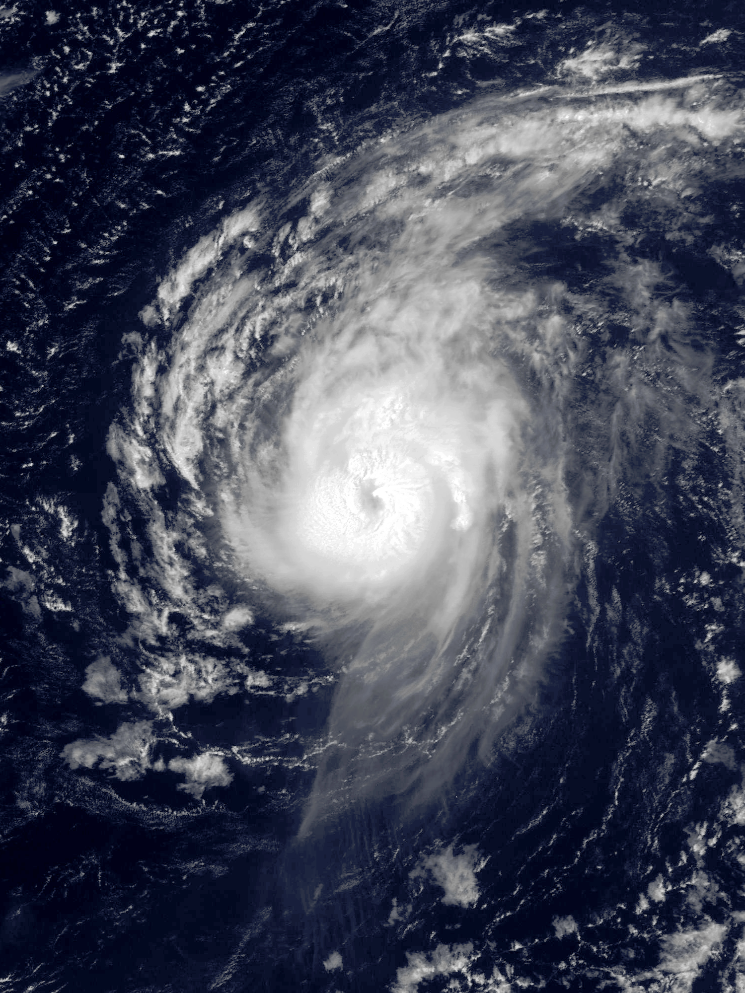 Hurricane Danielle near peak intensity over the eastern North Atlantic Ocean on August 16, 2004